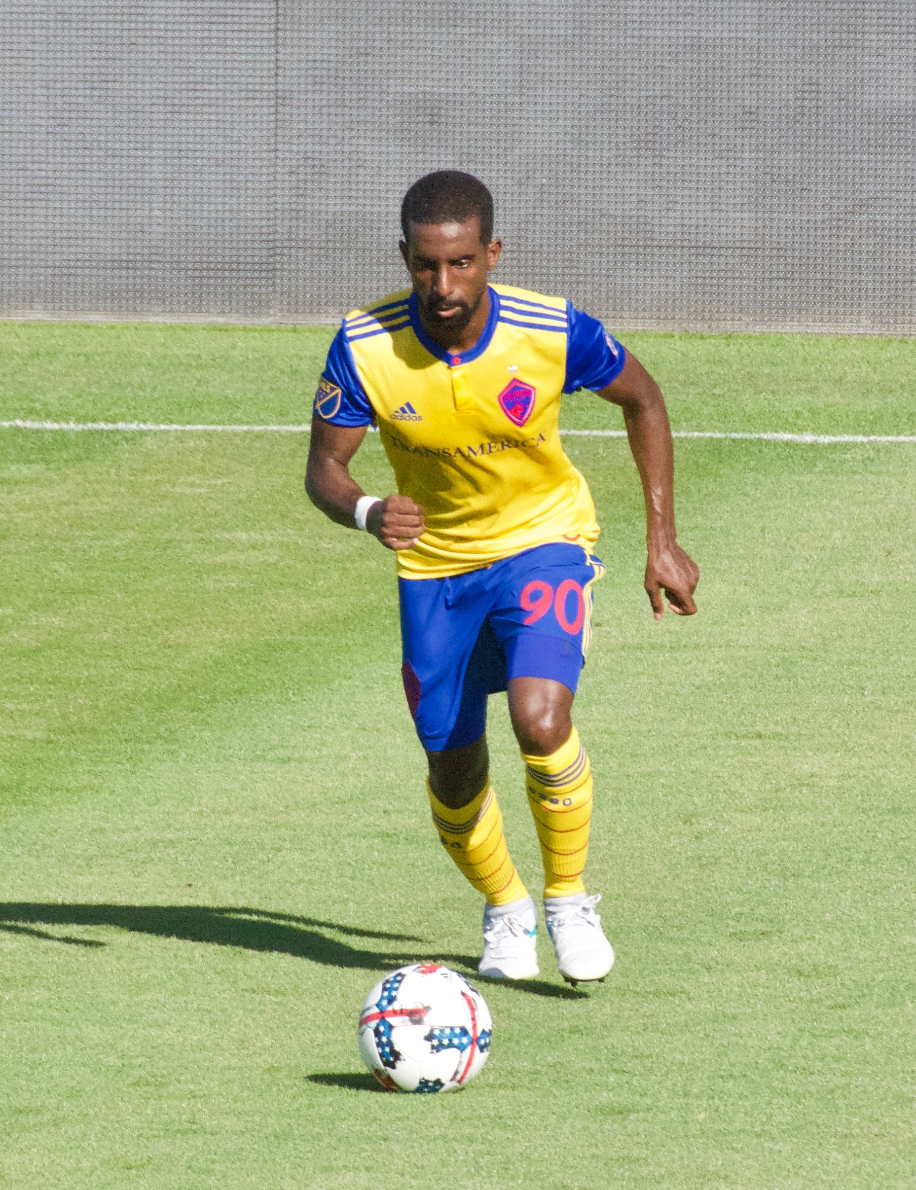 Mohammed Saeid playing for Colorado Rapids vs San Jose Earthquakes at Avaya Stadium on 2017.07.29